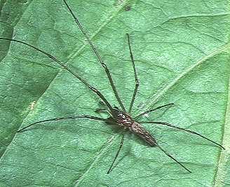 male Tetragnatha praedonia from Okinawa.